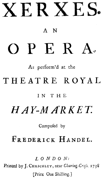 Georg Friedrich Händel - Serse - title page of the libretto - London 1738